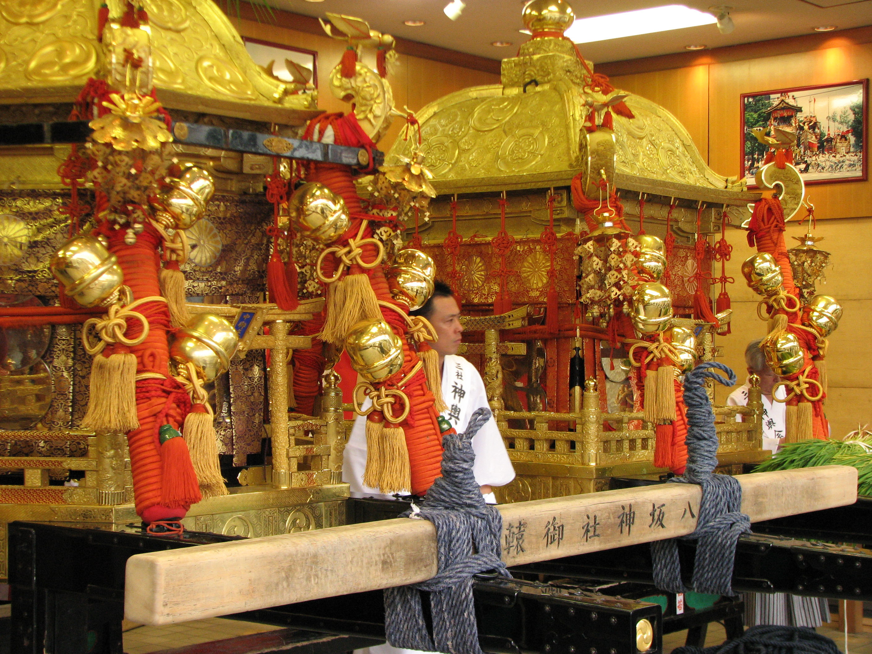 Omikoshi procession of the Gion Matsuri